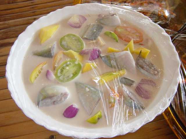 Fresh from the fisherman, take out the head and tail, this is the local sashimi. Fresh fish in coconut milk and vinegar plus hot chili. My fave, as I am the one doing it. As the congregation is having a picnic at Danao.